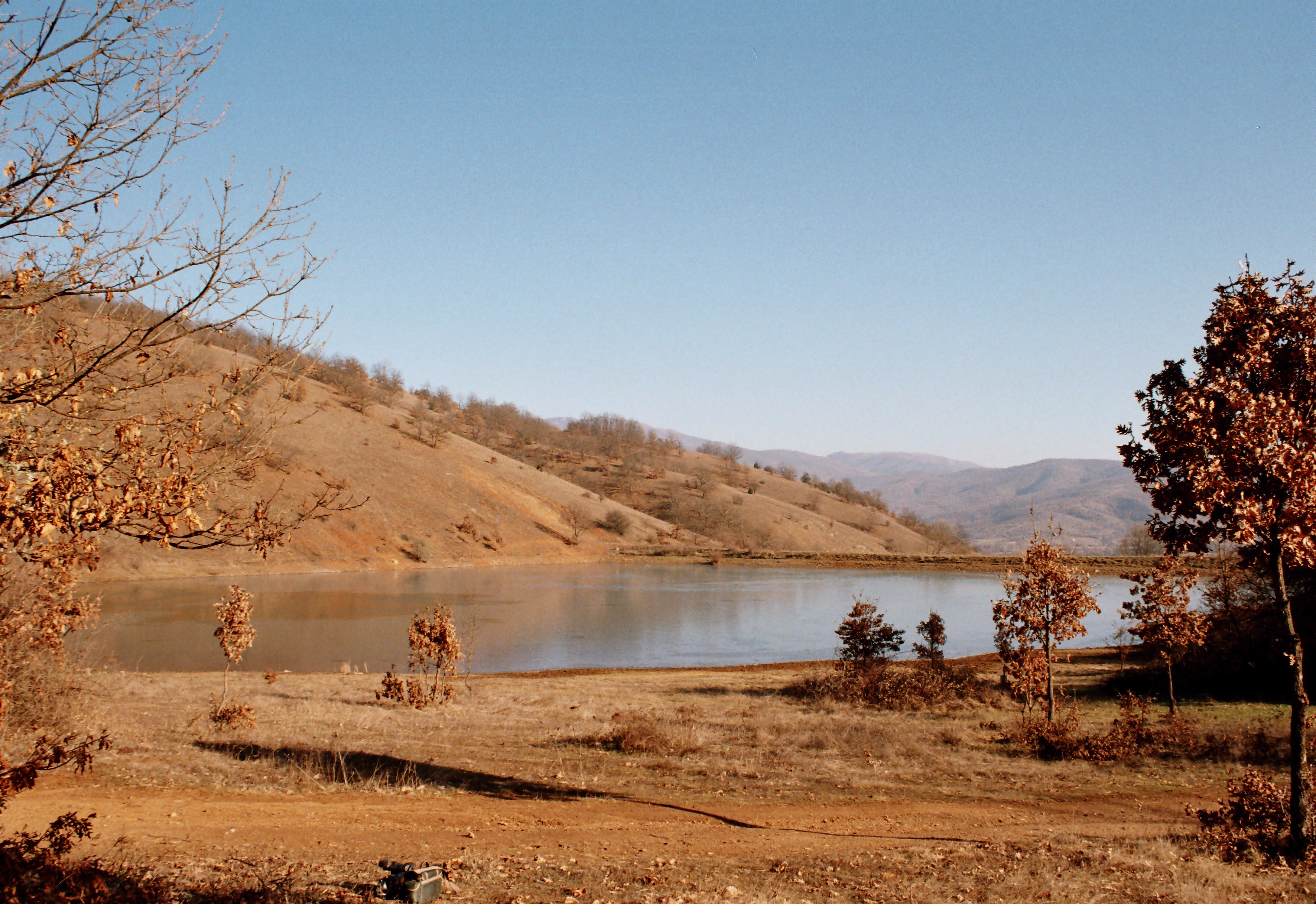 Ezero_strugovo